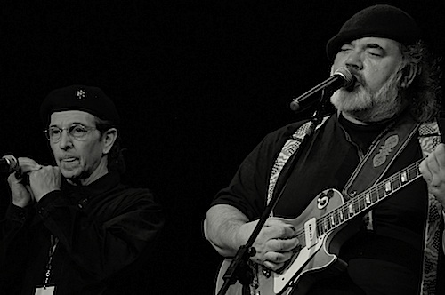 Dallas Hodge & Stanley Behrens (of Canned Heat (Photo by Scott Dudelson)